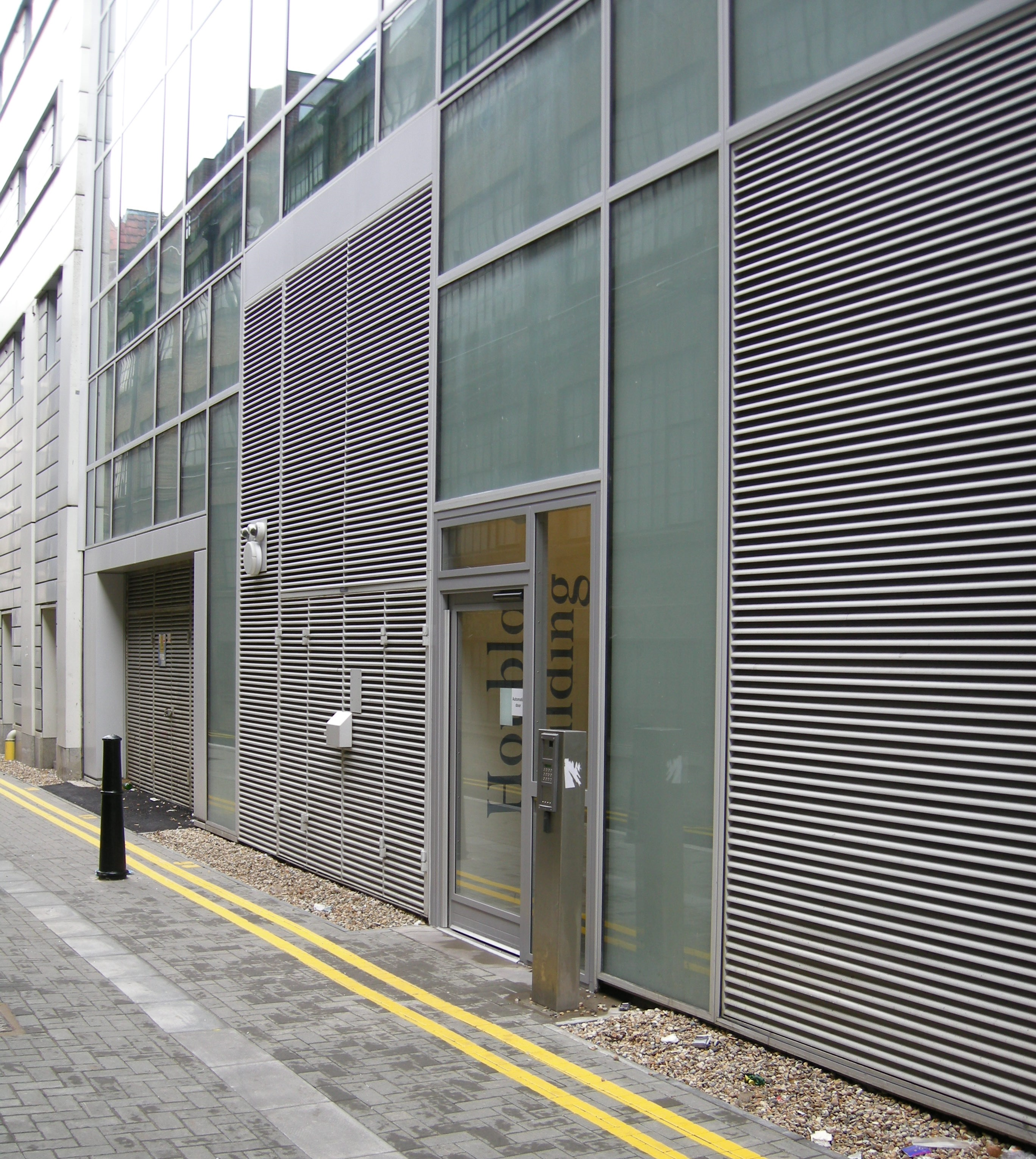 The Relay Building, formerly known as One Commercial Street, London, E1: separate entrance in Tyne Street to Houblon Apartments